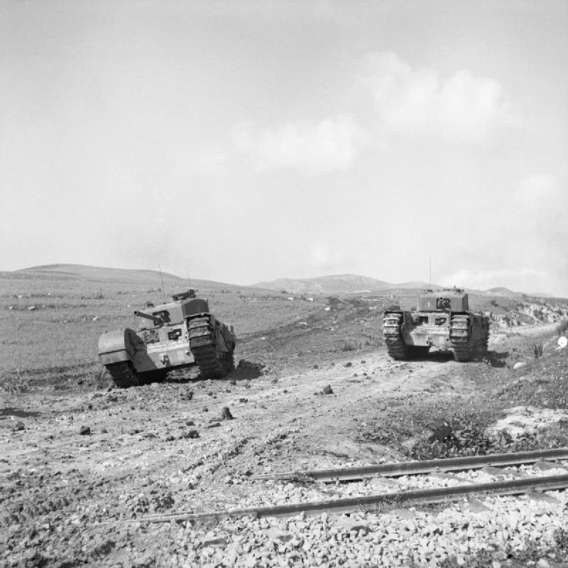 Churchill tanks go into action near Ksar Mesouar, Tunisia, 28 February 1943. Churchill tanks go into action near Ksar Mesouar, 28 February 1943.